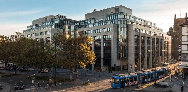 Elisenhof Munich